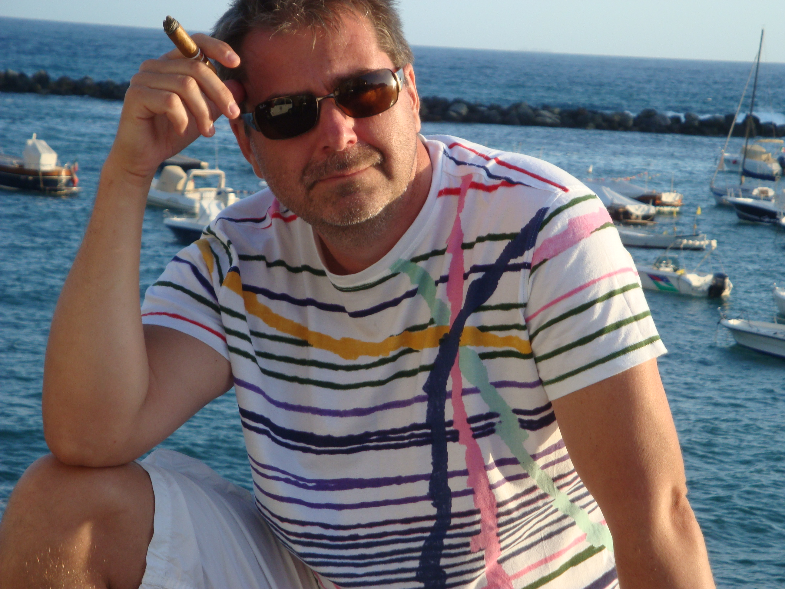 Fotka z osobnej zbierky Petra Marcina